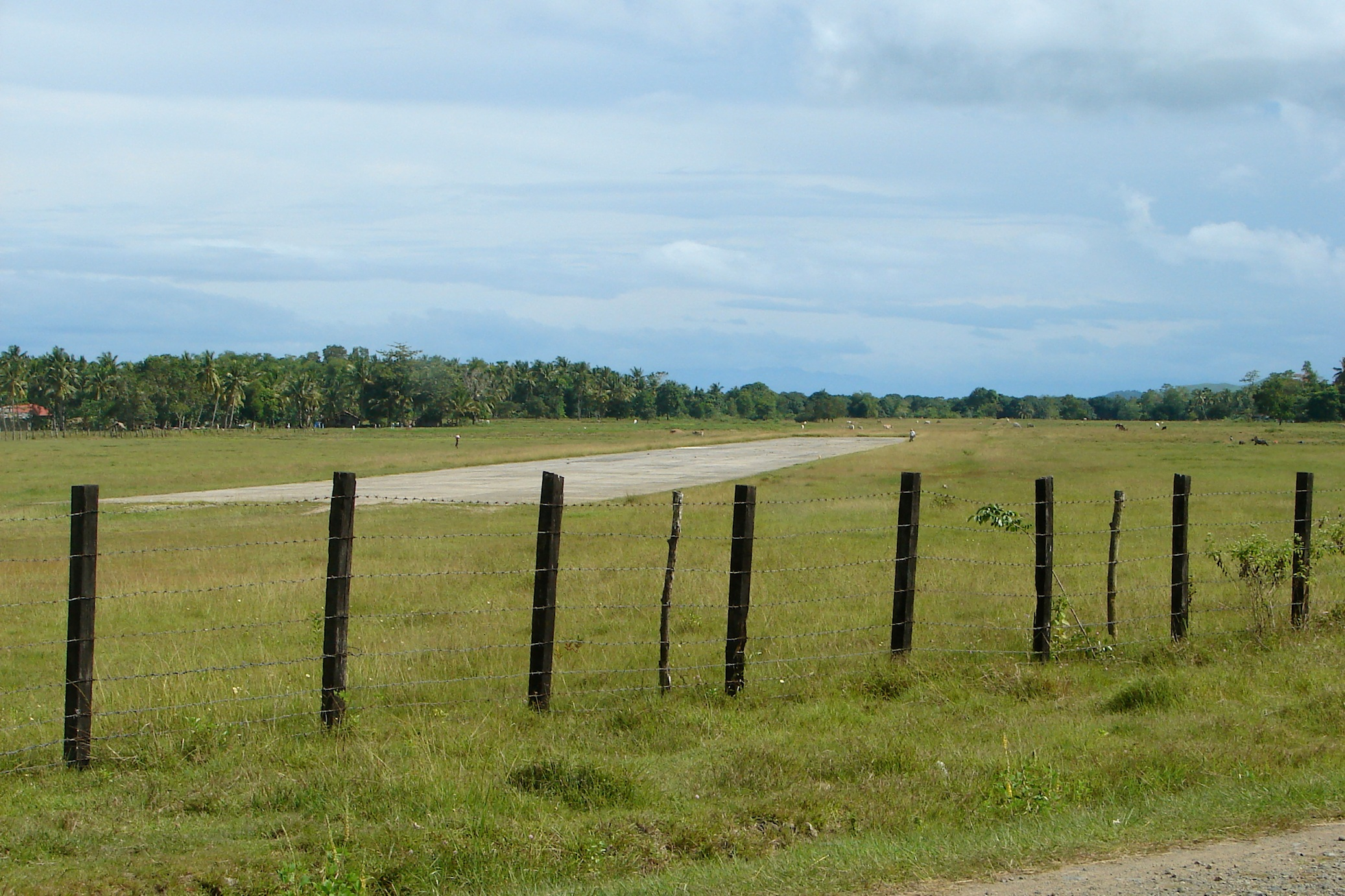 Ubay Airfield, Ubay, Bohol, Philippines